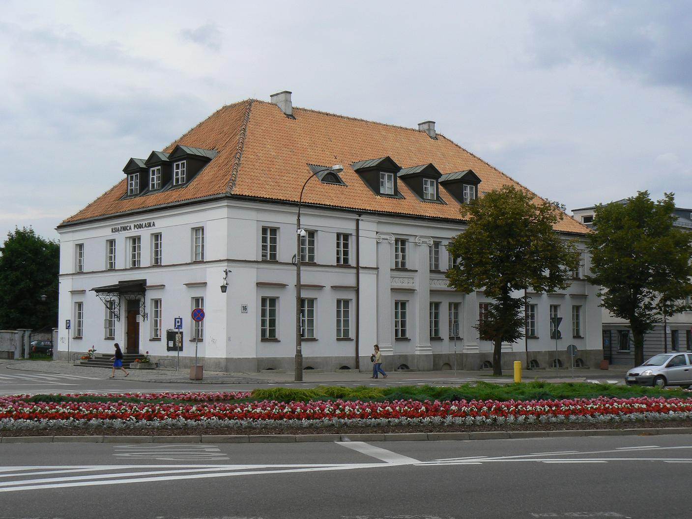 Library in Bialystok, former masonic lodge